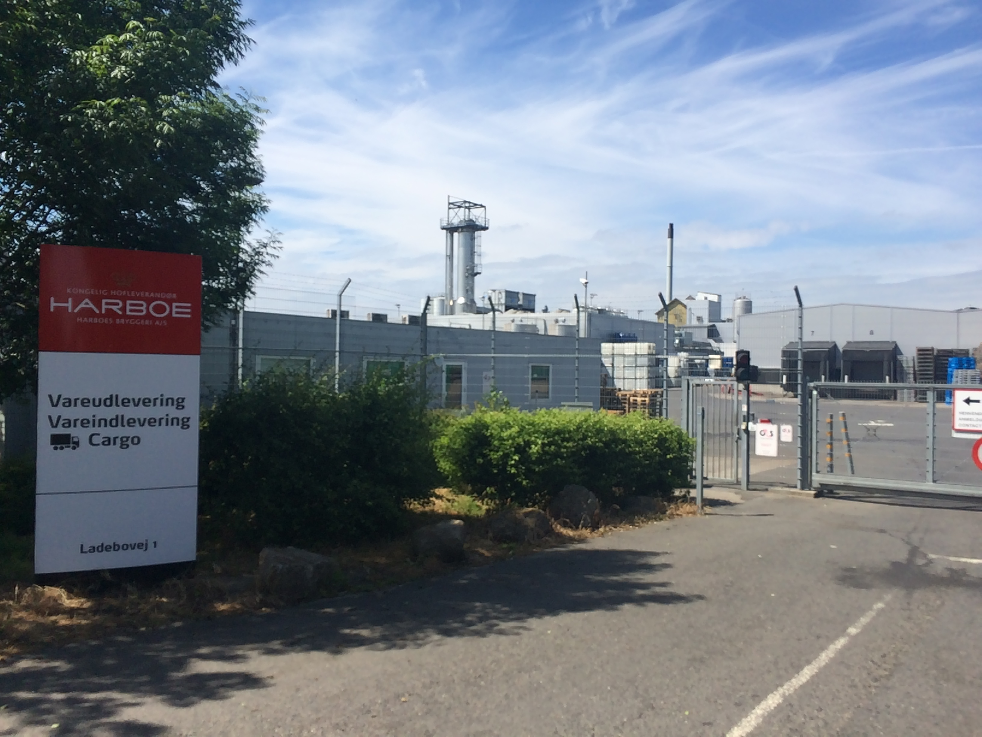 Harboe's Bryggeri - Head Quarters in 2017